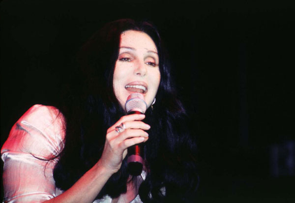 Cher at the WKTU-FM's Last Dance Party. She sang 3 songs and notoriously fell off the stage. Unfortunately I didn't pick that moment. Great lady, though.